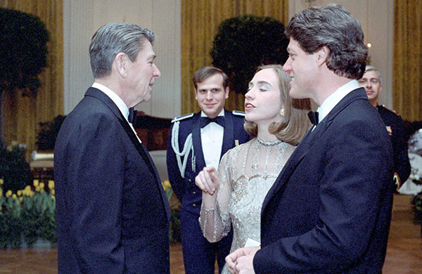 2/27/1983 President Reagan with Bill Clinton and Hillary Clinton at a dinner in Honor of State Governors in the East Room